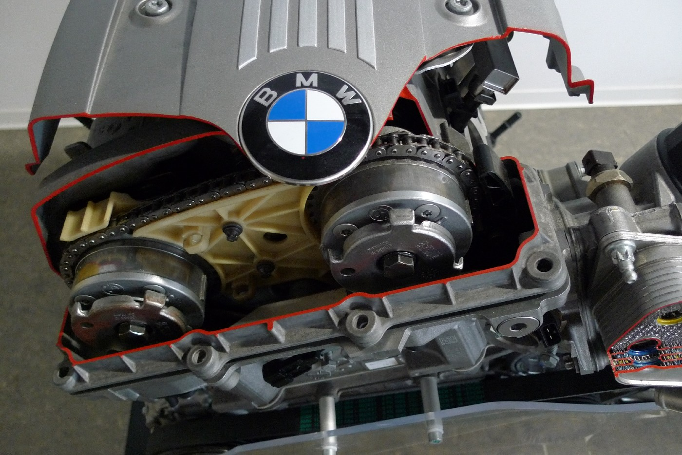 Sectional model of a BMW N52 engine, Institute of Applied Materials – Materials Science (IAM–WK), Karlsruhe Institute of Technology (KIT)